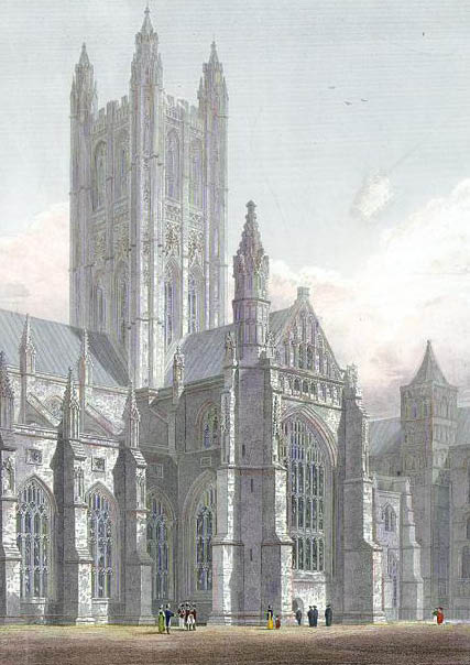 Canterbury Cathedral, Central Tower, South Transept &c